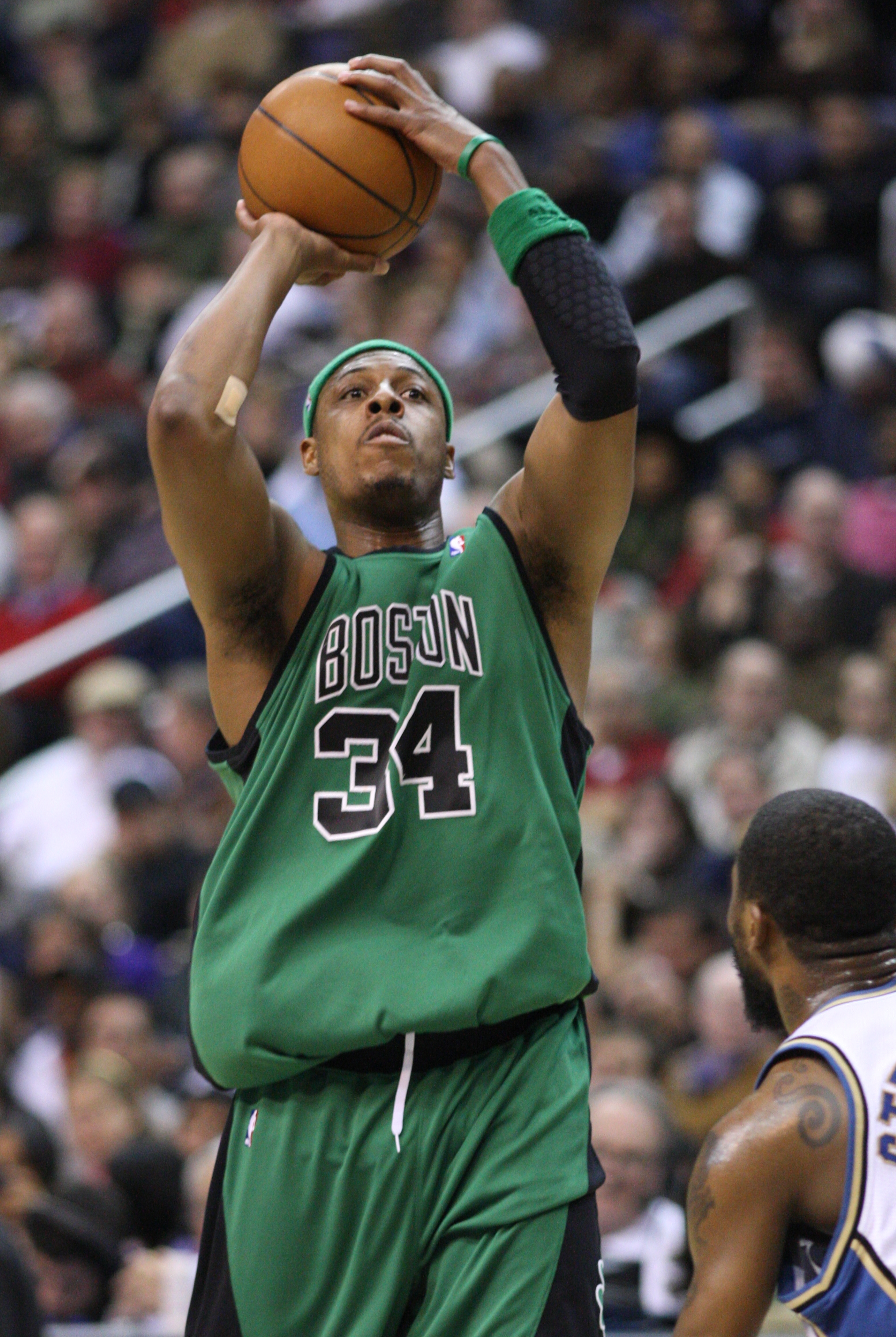 Paul Pierce with Celtics